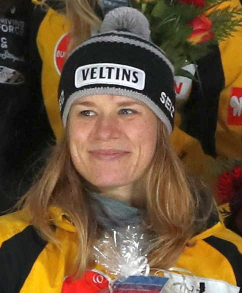 2-woman Bobsleigh Women's World Cup race at the 2018/19 Bobsleigh World Cup in Altenberg